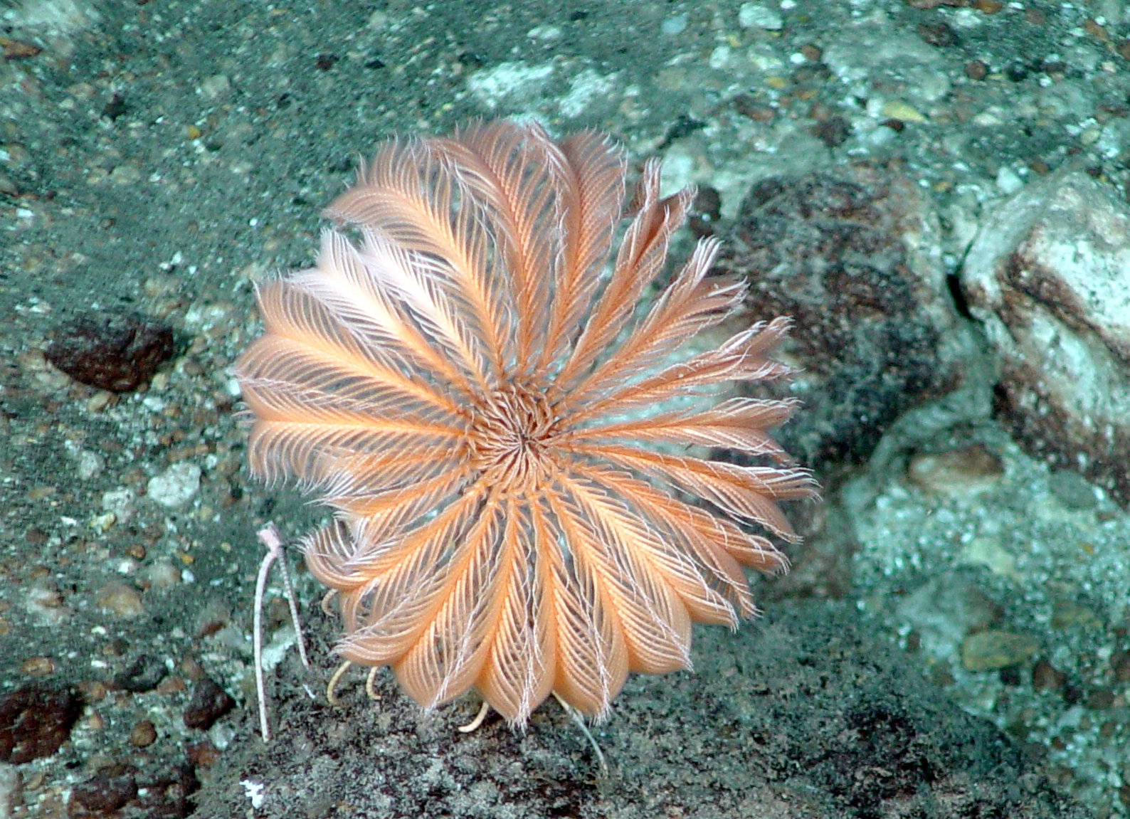 Pacific Ring of Fire Expedition. Stalked crinoid (~ 5 inches across, ~13 cm) on the caldera seafloor at West Rota volcano. Crinoids are suspension feeders, using their crown, which is covered with sticky pinnules, to capture zooplankton. Mariana Arc region, Western Pacific Ocean. 2004 April. Credit: Pacific Ring of Fire 2004 Expedition. NOAA Office of Ocean Exploration; Dr. Bob Embley, NOAA PMEL, Chief Scientist.